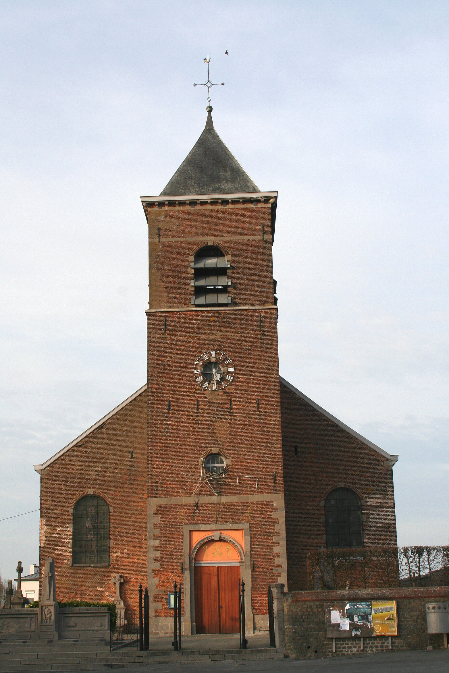 Meslin-l'Evêque (Belgium), Peter’s church (1792).